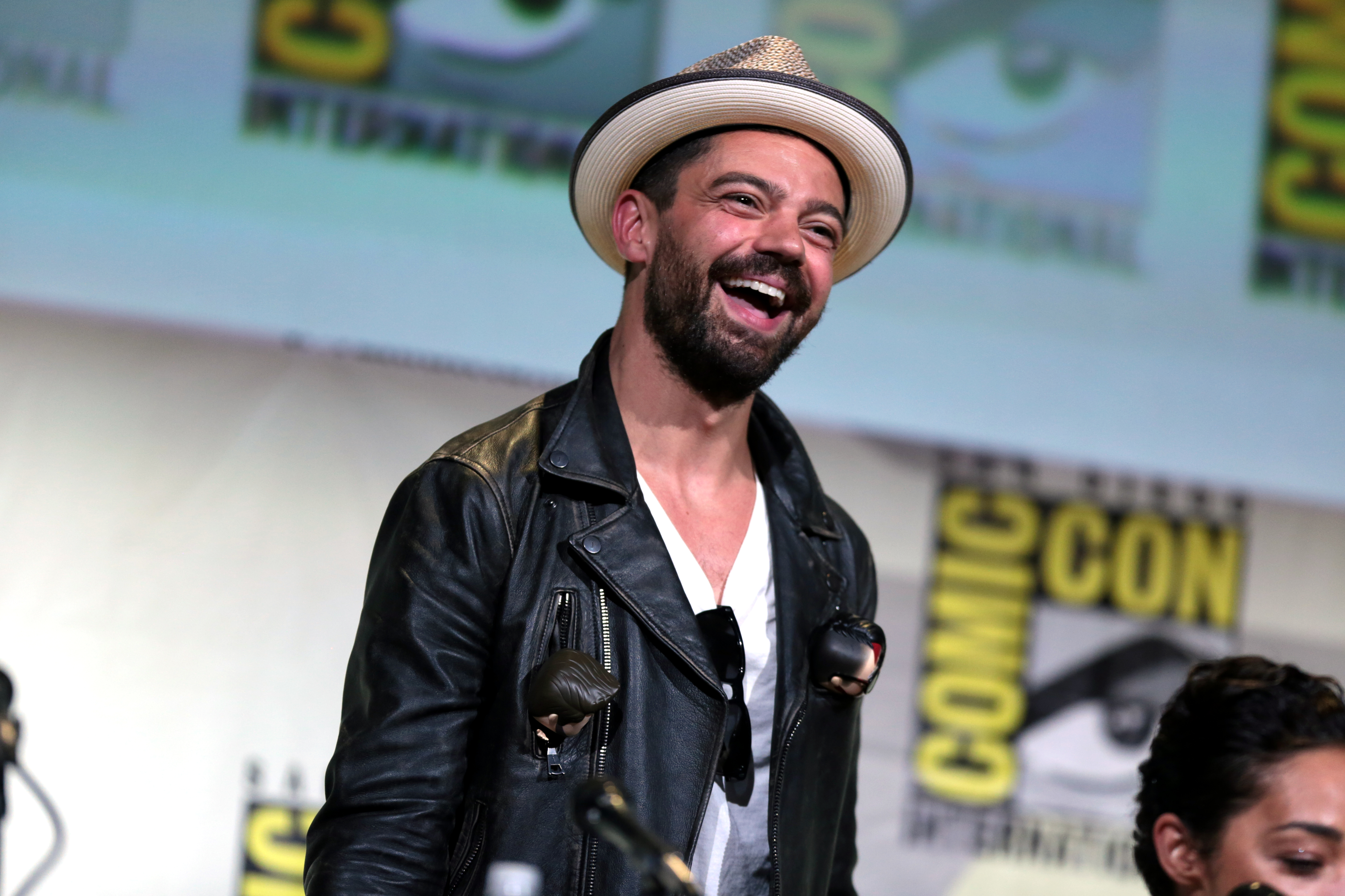 Dominic Cooper speaking at the 2016 San Diego Comic Con International, for "Preacher", at the San Diego Convention Center in San Diego, California.